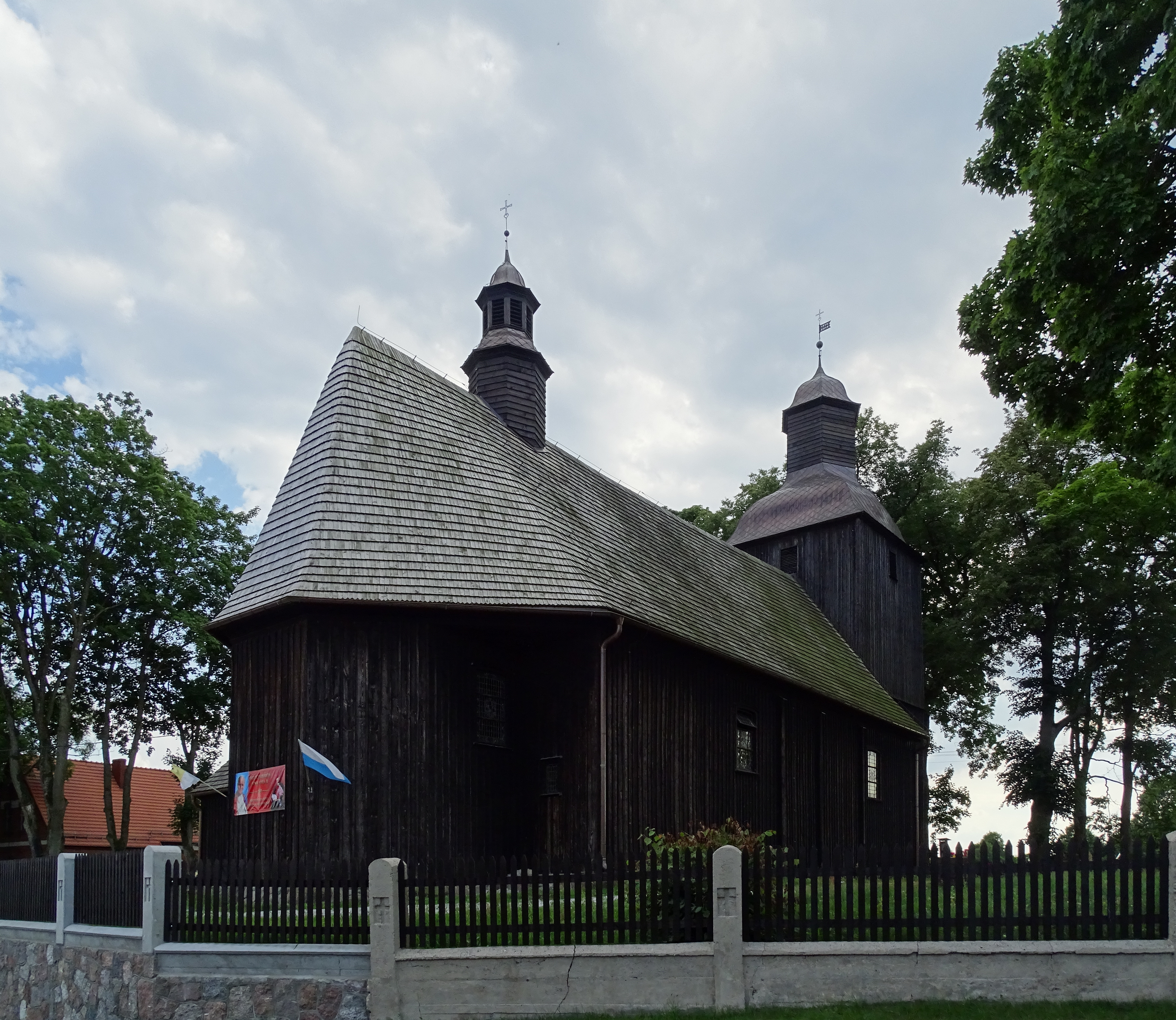 Rumian, Warmian-Masurian Voivodeship, Poland. Church of Saint Barbara from the year 1714.